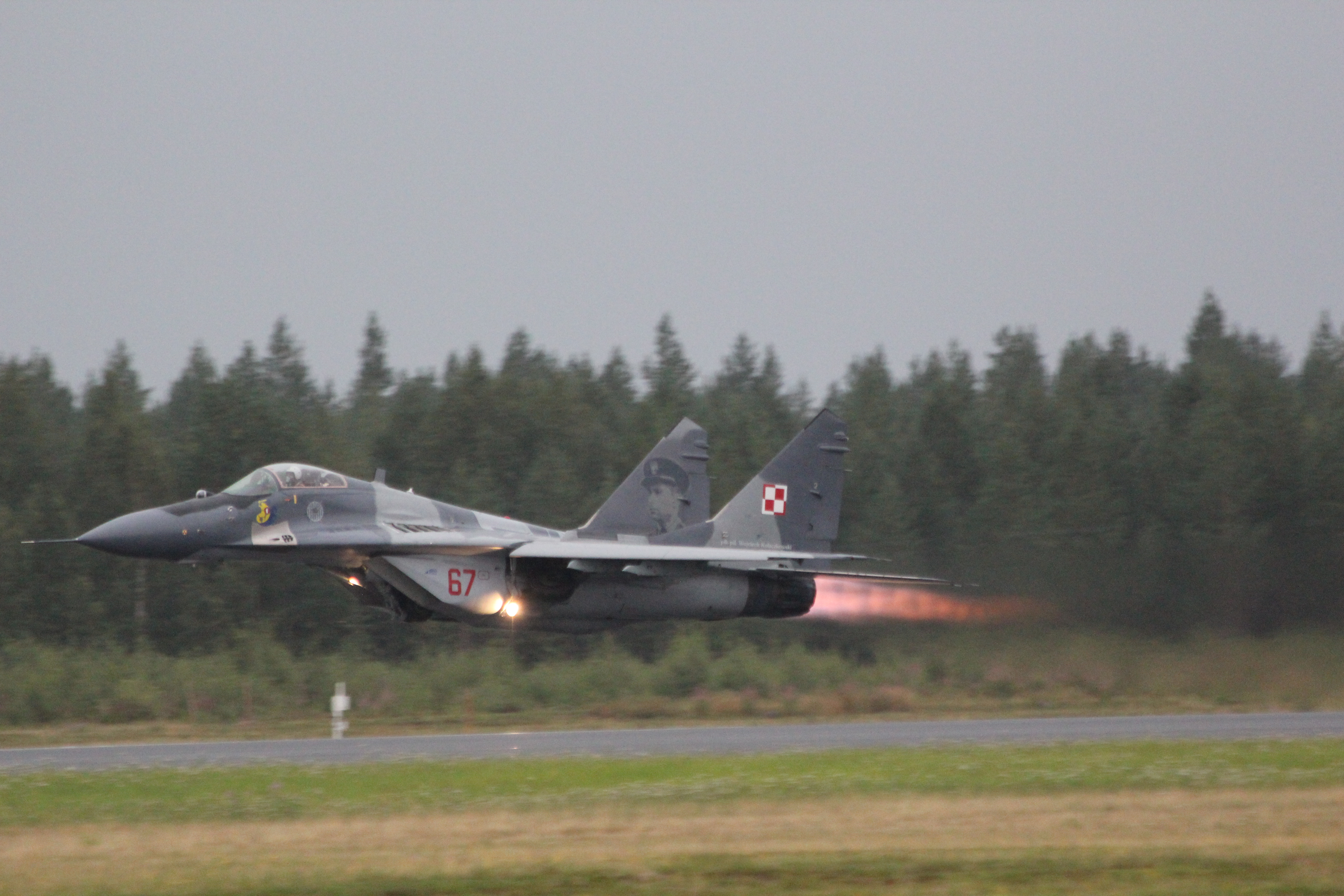 Polish air force MiG-29A "67" flying aerobatics over Oulu Airport at Tour de Sky 2014 air show.